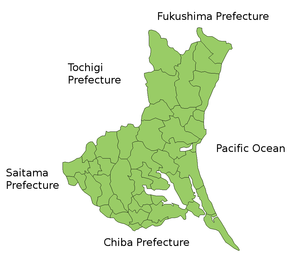 Map of Ibaraki Prefecture, Japan. Thanks to Aoki Shigenobu and [1]. Colors from Image:TokyoMapCurrent.png by User:Fg2.